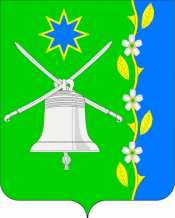 Coat of arms of Novobeisugskaya, Vyselki Raion, Krasnodar Krai, Russia.